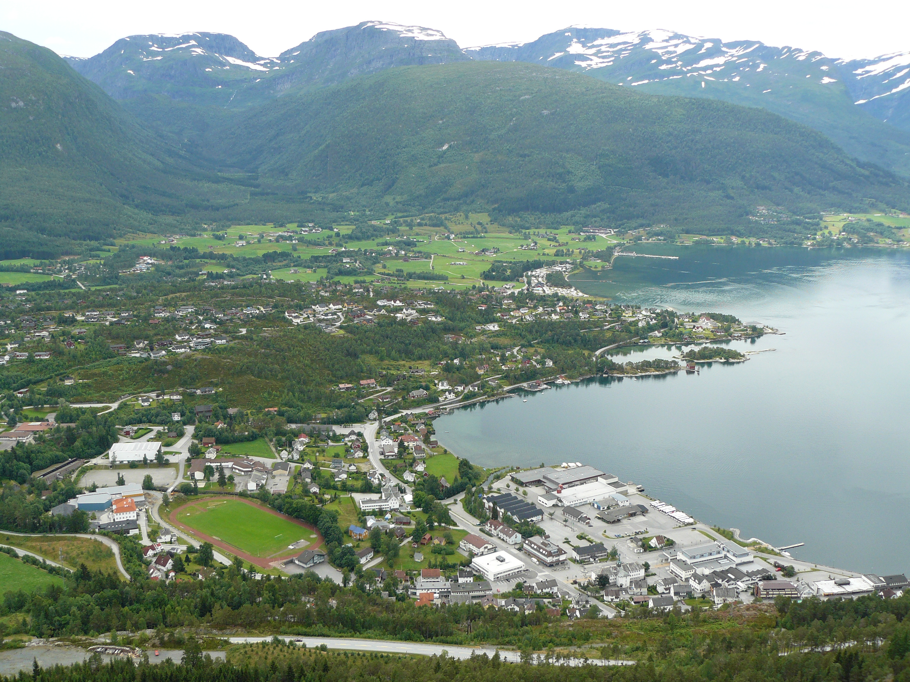 Sandane, Gloppen, Norway, seen from the scenic viewpiont, Utsikten